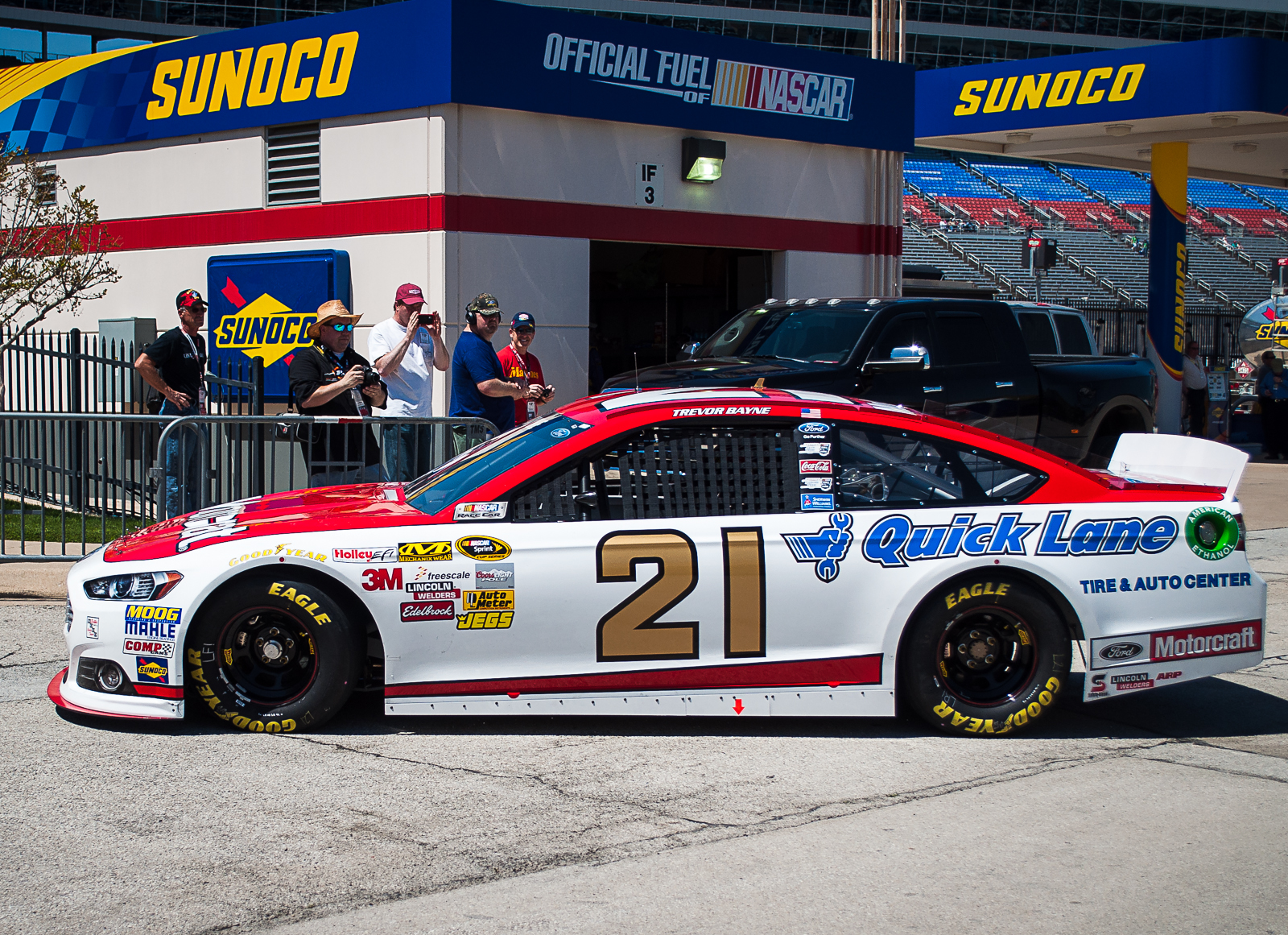 Trevor Bayne drives the No. 21 Ford through the garage during practice for the 2013 NRA 500 at Texas Motor Speedway.